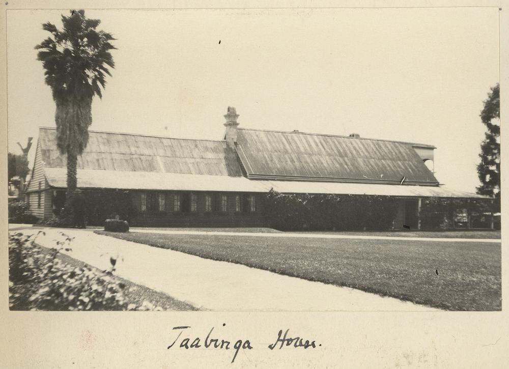 Taabinga House in the Kingaroy district, Queensland, ca, 1927